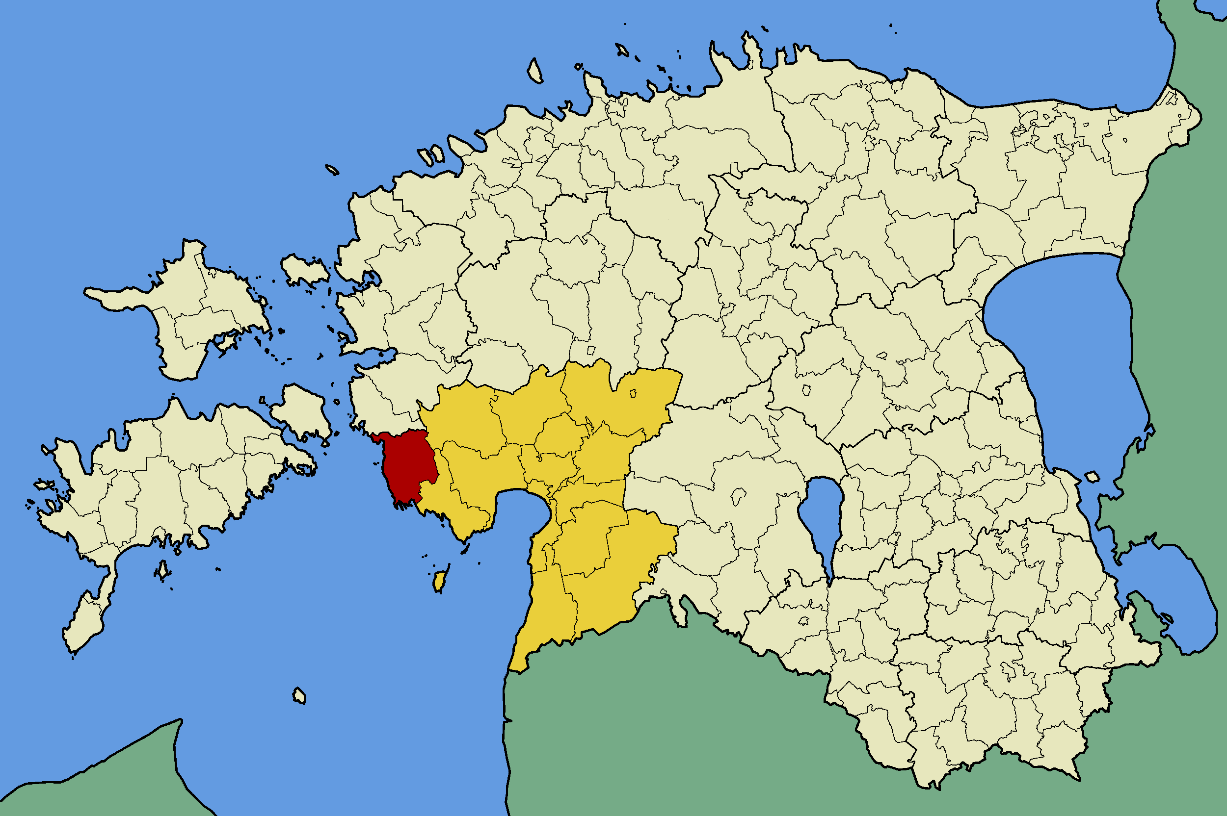 Map of Estonia with borders of municipalities (parishes). Pärnu county and Varbla municipality emphasized.